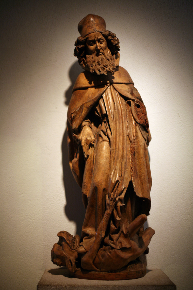 Niclaus of Haguenau (German, ca. 1445–before 1538) Saint Anthony Abbot, ca. 1500 German Walnut; H. 44 3/4 in. (113.7 cm) The Metropolitan Museum of Art, New York, The Cloisters Collection, 1988 (1988.159) View at the Metropolitan Museum of Art website Wikipedia Loves Art at the Metropolitan Museum of Art This photo of item # 1988.159 at the Metropolitan Museum of Art was contributed under the team name "shooting_brooklyn" as part of the Wikipedia Loves Art project in February 2009. Metropolitan Museum of Art The original photograph on Flickr was taken by shooting brooklyn—please add a comment to the original Flickr page whenever a use has been made on Wikipedia or another project. Project galleries on Flickr: this institution, this team